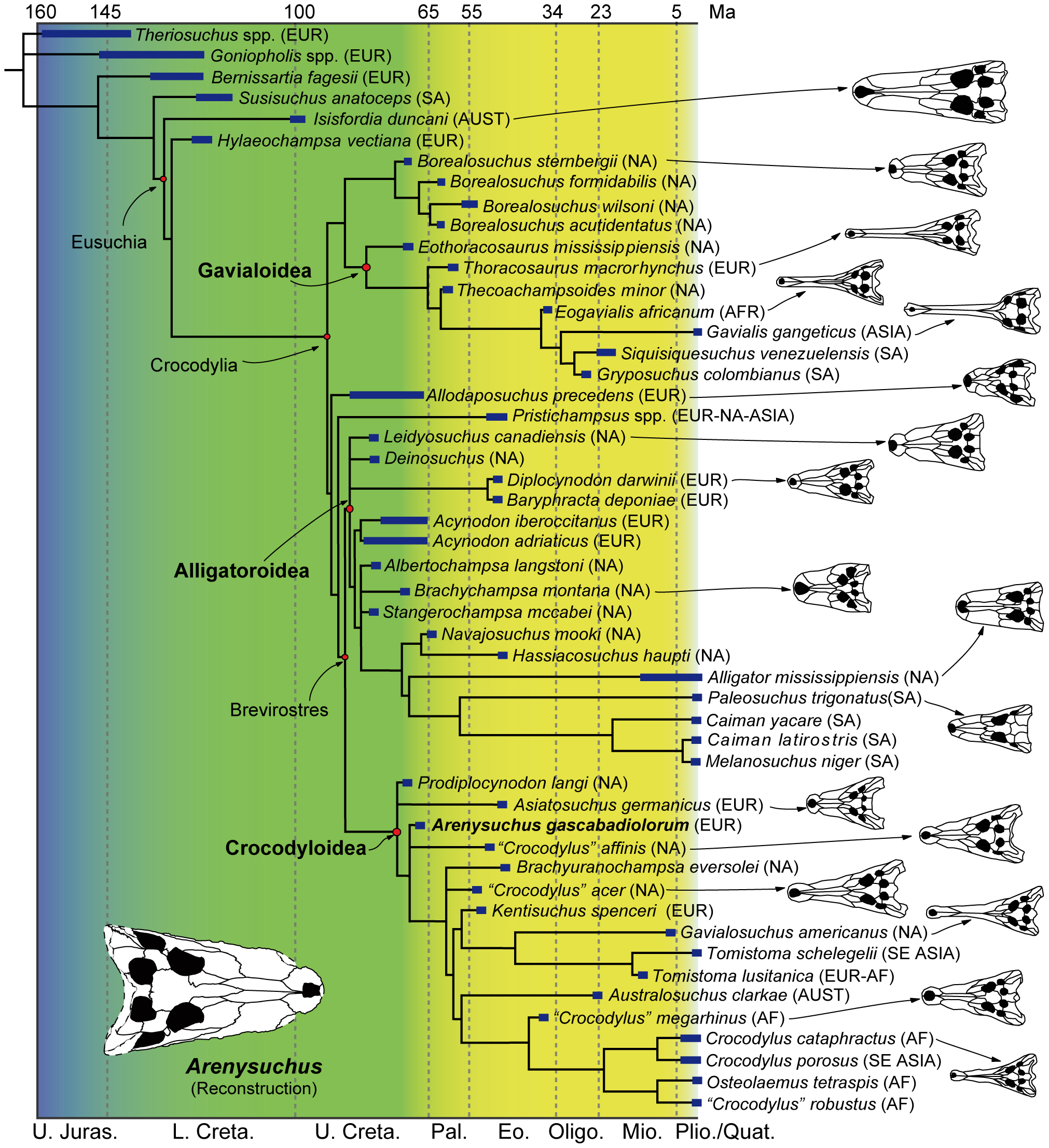 Phylogenetic relationships of Arenysuchus gascabadiolorum. Stratigraphically calibrated strict consensus of 368 equally parsimonious trees resulting from parsimony analysis of 176 characters in 51 taxa. Thick blue lines represent known minimal ranges (see [3], [5] and bibliographies therein). The abbreviations above the names denote the area in which the taxon occurs (AF, Africa; ASIA, Asia; AUST, Australia; EUR, Europe; NA, North America; SA, South America; SE ASIA, southeast Asia). For more information see Appendix S1 and Appendix S2 (data matrix, analysis protocol, apomorphy list, strict consensus tree and decay index).